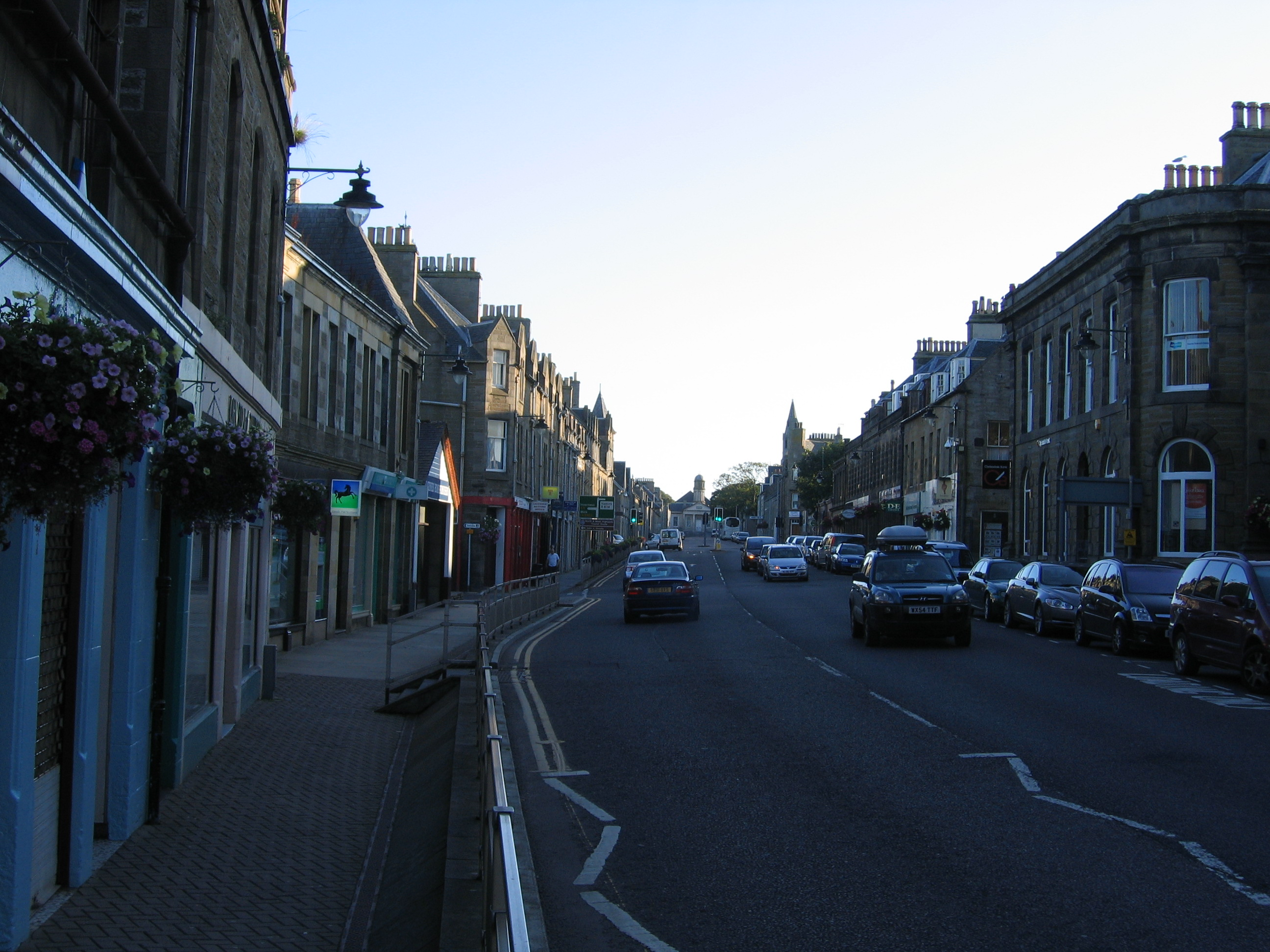 Traill Street, Thurso